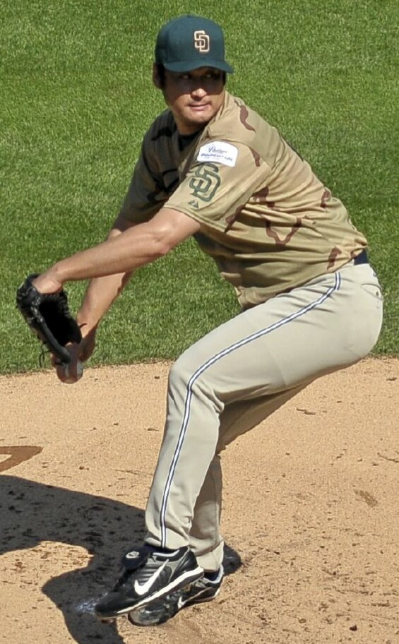 Cha Seung Baek